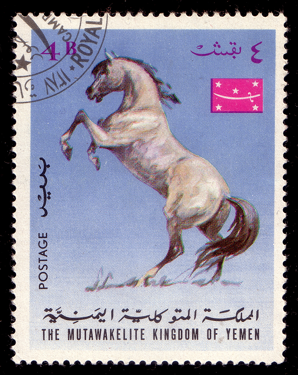 Postage stamp of Mutawakkilite Kingdom of Yemen, 1967